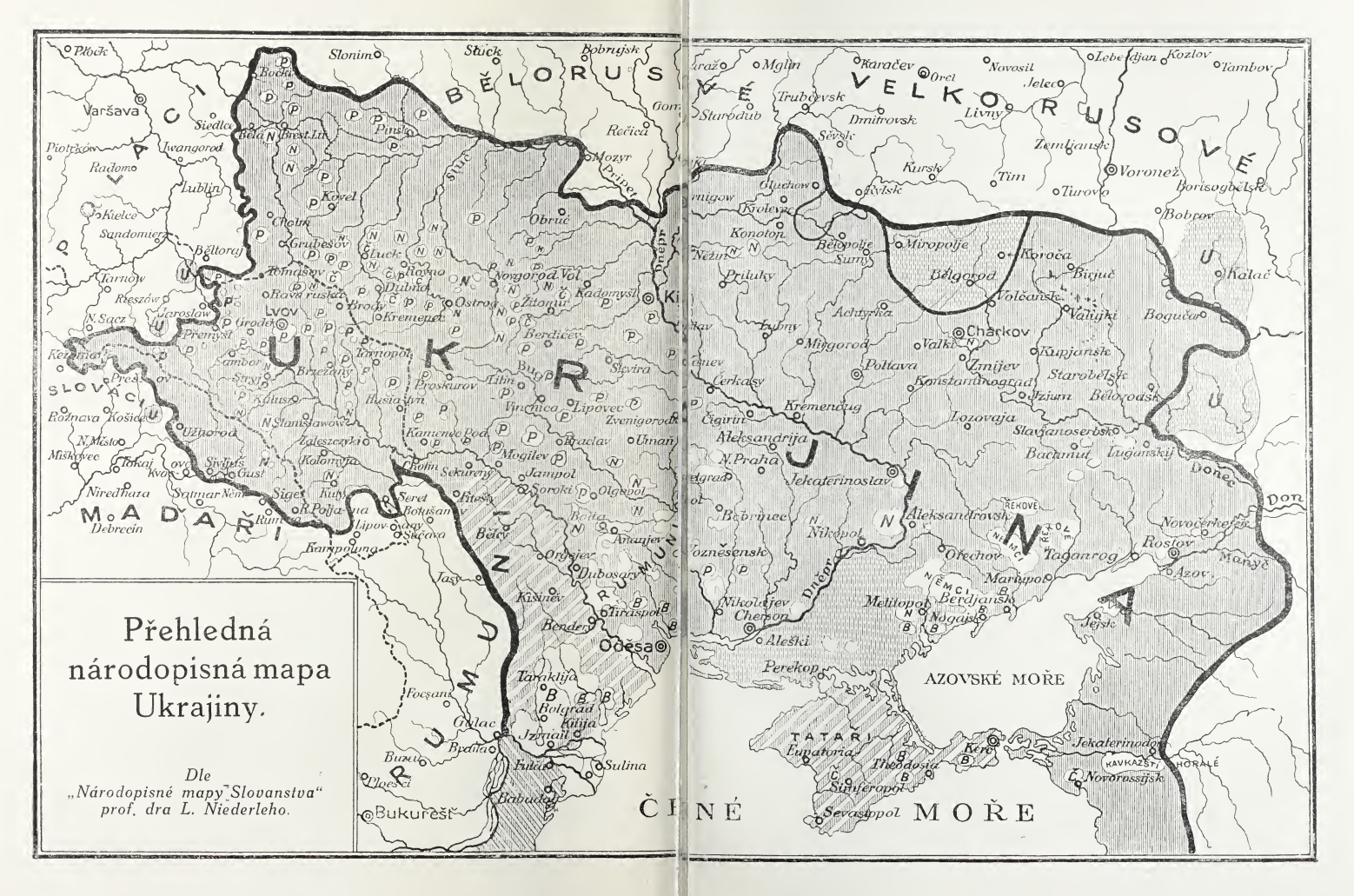 Map "Přehledná národopisná mapa Ukrajiny" based on the map "Národopisná mapa Slovanstva" by Lubor Niederle of 1912. Published in 1915.